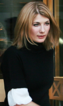 Jodie Whittaker at the 2008 Toronto International Film Festival